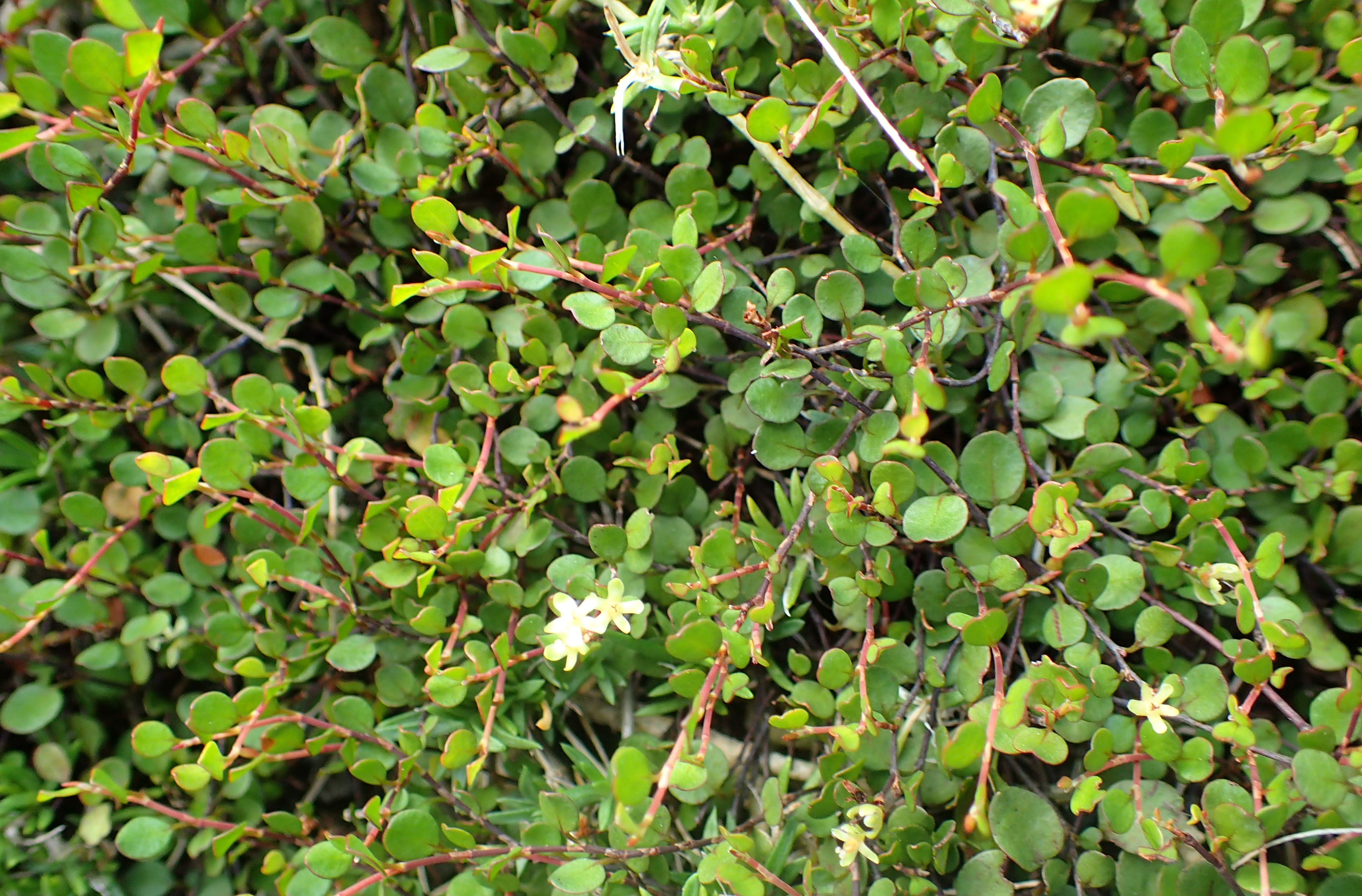 Muehlenbeckia axillaris at the New York Botanical Garden